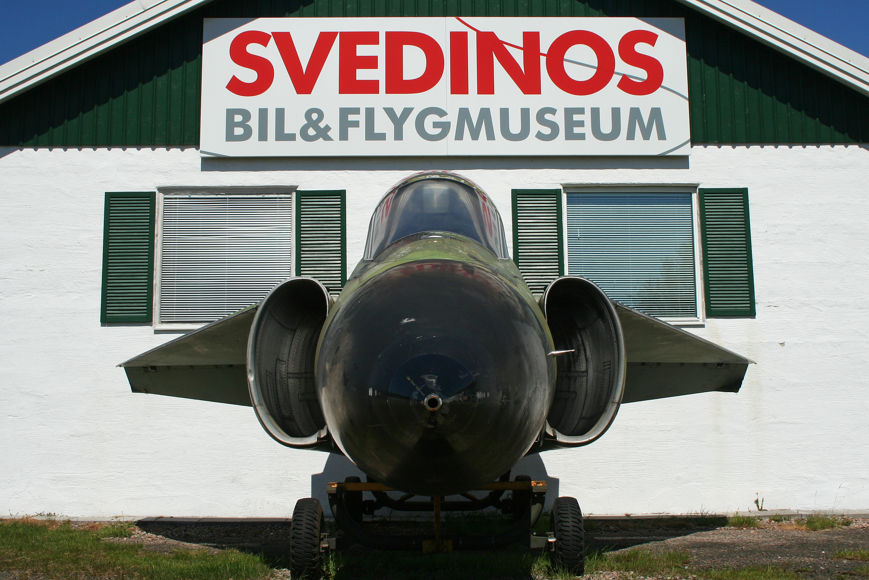 Outside the museum, and the only external clue as to what lies within these buildings!! Svedinos Museum, Ugglarp. 02-6-2012